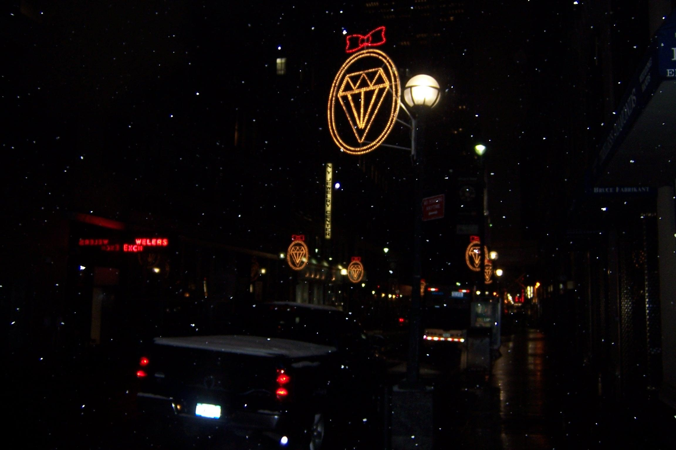 New York's 47th Street in Diamond District, decorated for holiday at night